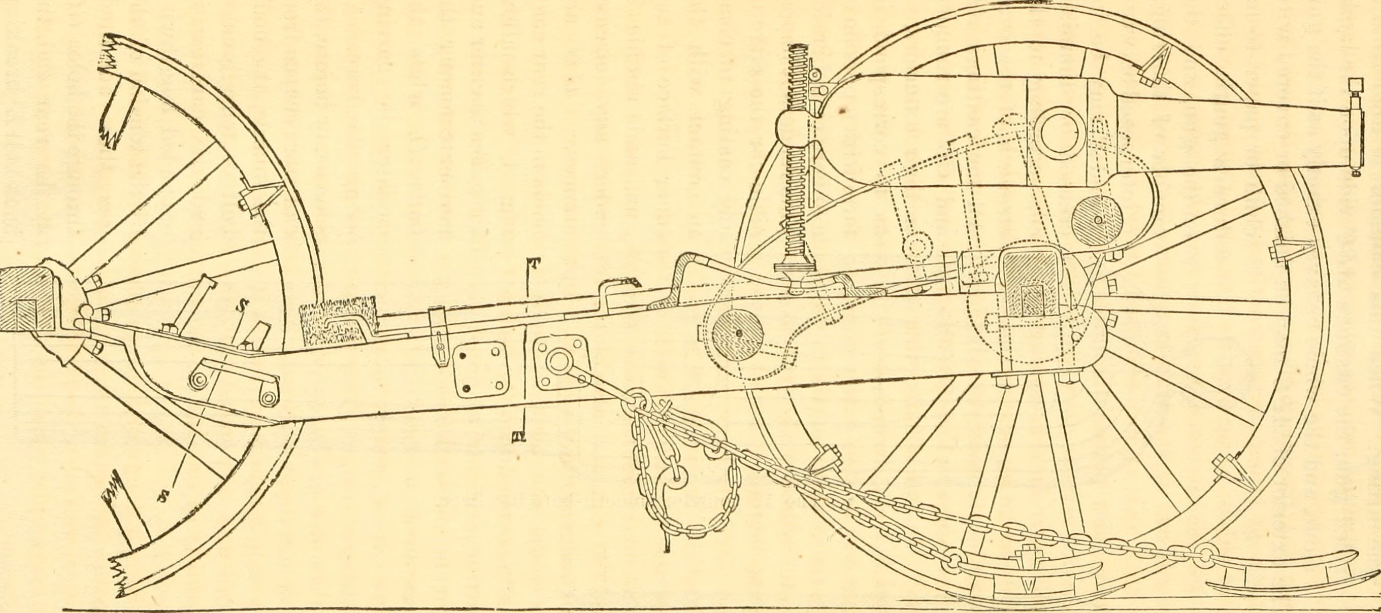 Wiard 6-pounder gun and carriage of the American Civil War, designed by Norman Wiard. Title: Annual report of the American Institute, of the City of New York Year: 1862 (1860s) Authors: American Institute of the City of New York Subjects: Science Publisher: [S. l. : s. n. ] Text Appearing Before Image: 440 TRANSACTIONS OF THE AMERICAN INSTITUTE. easier than the castings GC projecting the cover R in advance, canister is also adapted to smooth bore guns. The same THK CARKIAGES. The following figure represents my field gun mounted on my carriage, when limbered up and the locking shoe ad- justed as prepared to descend a hill. This cut is a cross section on the line SS of the H trail The stock is made in tlie form re- presented, and attach- ed to the under side of the axle by means of the bolts connected with a strong saddle resting on the top of the axle, as shown in the figure. By this means I am enabled to give a greater degree of elevation to the piece, and, at the same time, maintain the proper strength in the carriage to sustain the recoil when fired at such high elevation, and the carriages of a battery thus construct- ed occupy but about two-thirds of the space occupied by the com- mon United States carriage, when packed for transportation on cars or ships. It gives I'oom, also, to fix sponge and rammer, as seen in the figure, on top of the trail, where they are not exposed to being torn off or broken, as if below the trail. The cheeks embrace the upper portion of axle, Text Appearing After Image: '